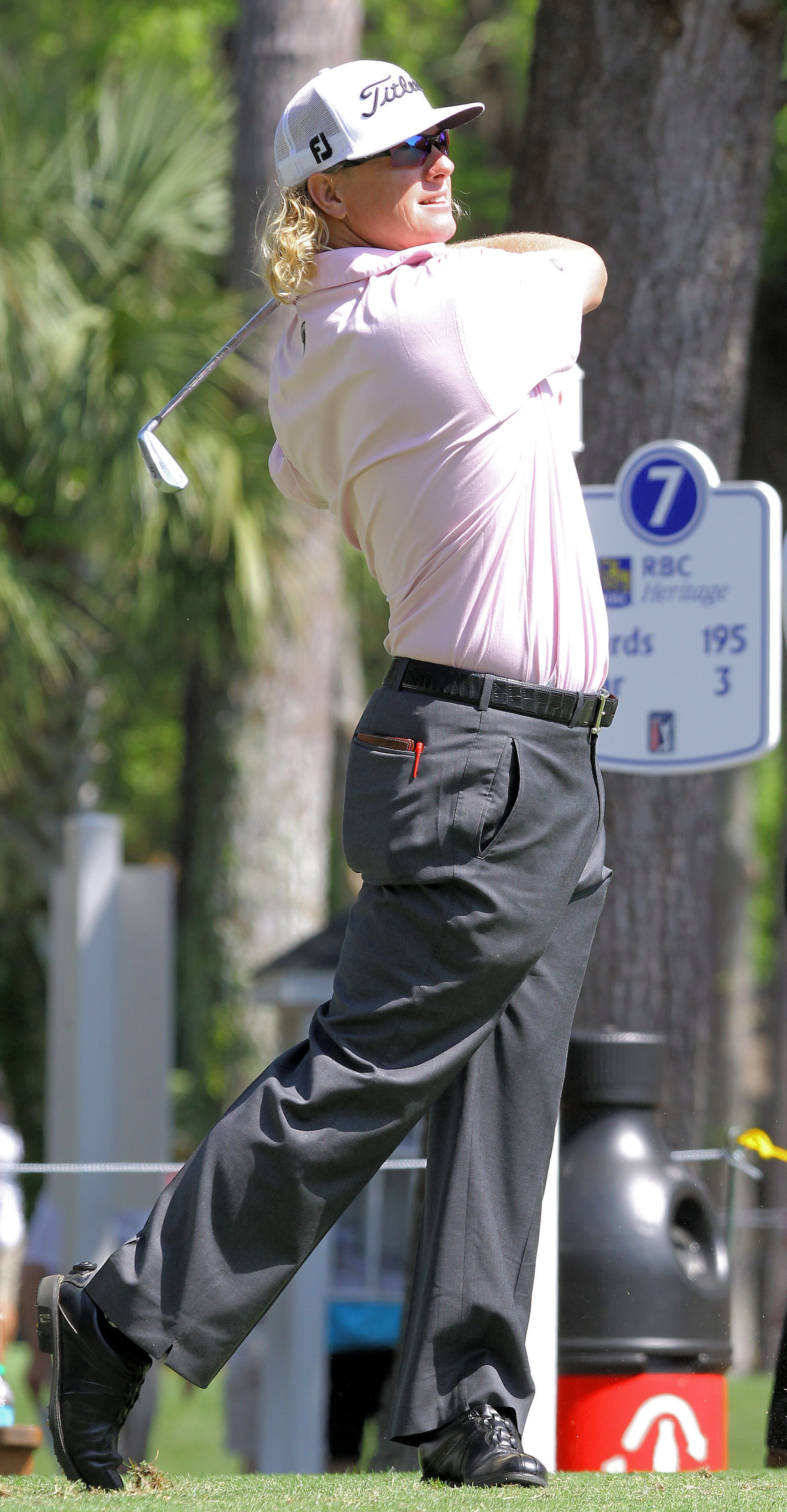 RBC Heritage Practice Round April 11, 2012 in Hilton Head, SC